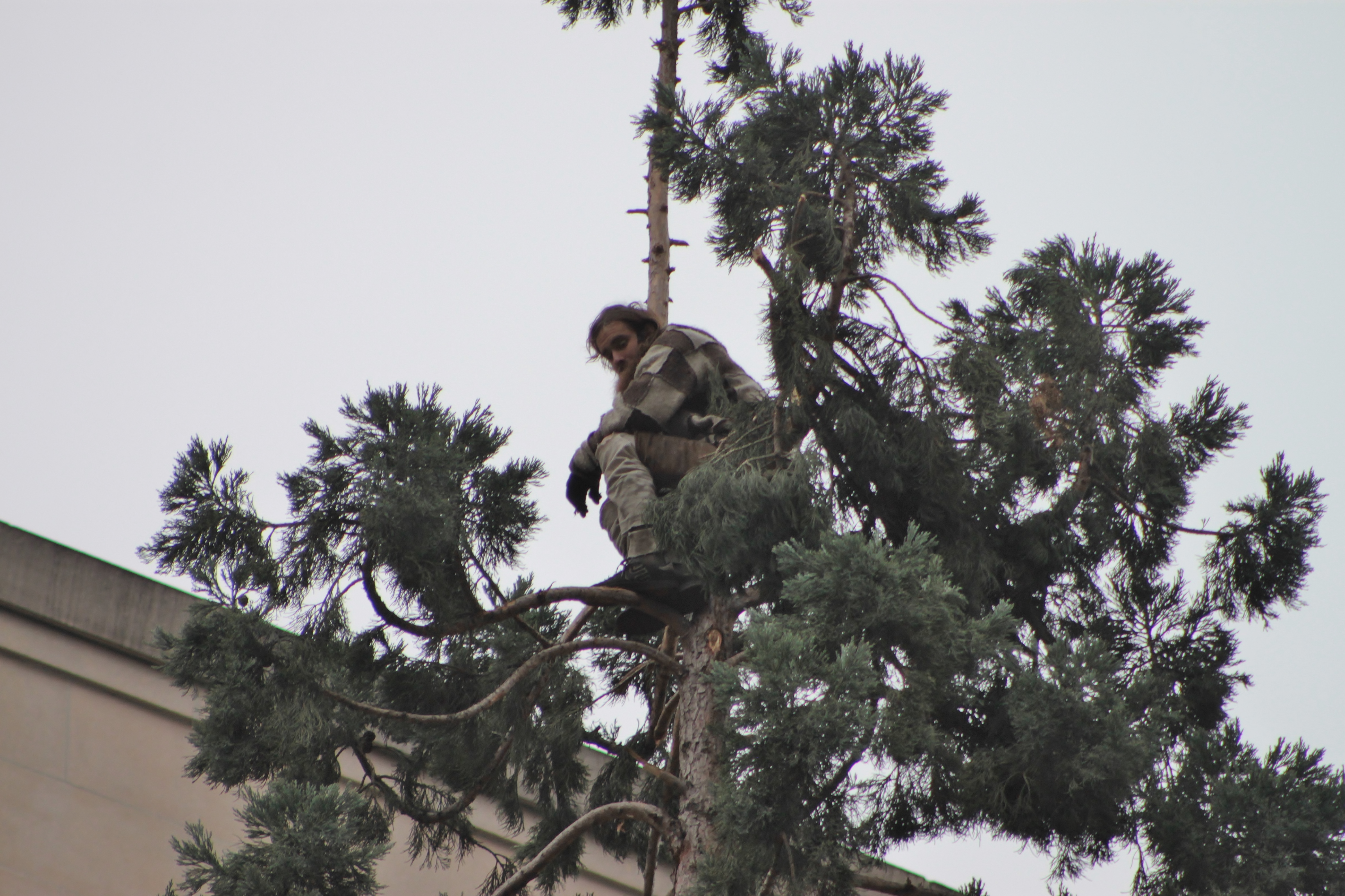 Closeup of a 80-foot sequoia tree in Downtown Seattle that had been scaled by a man, who refused to climb down for over 25 in a televised affair.